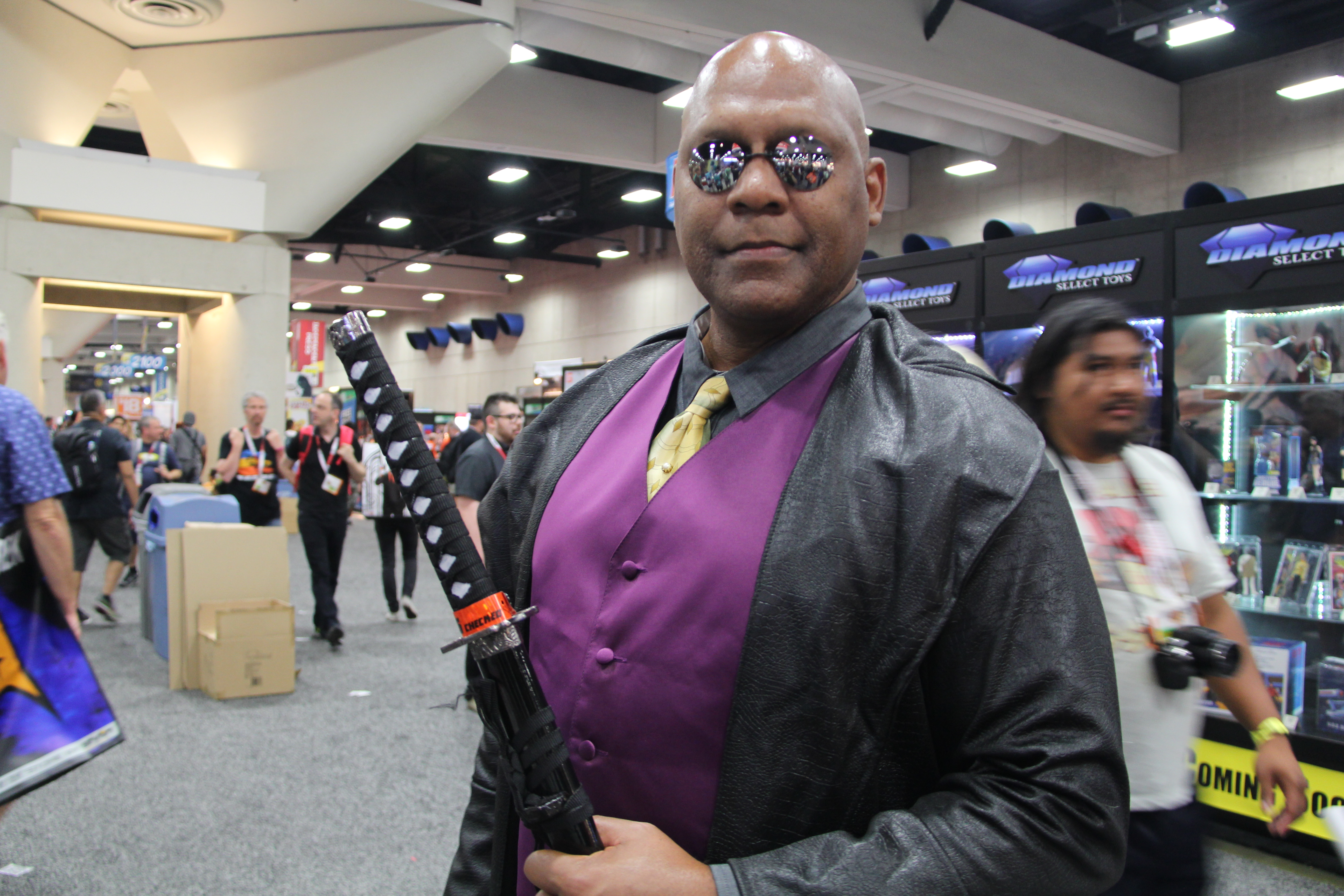 Cosplay at San Diego Comic Con 2015.